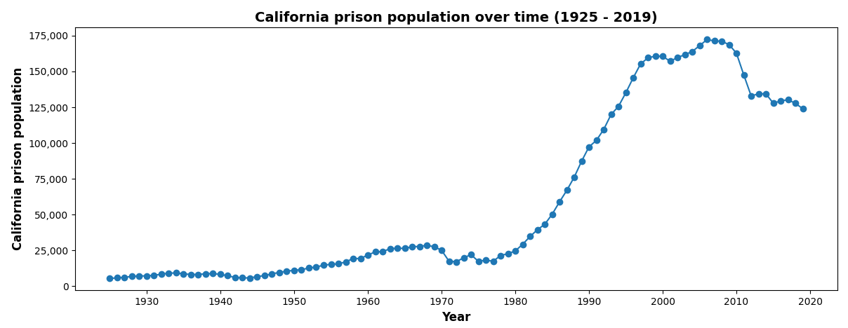 Graph showing the California prison population over time (1925 - 2019) Methodology and data points